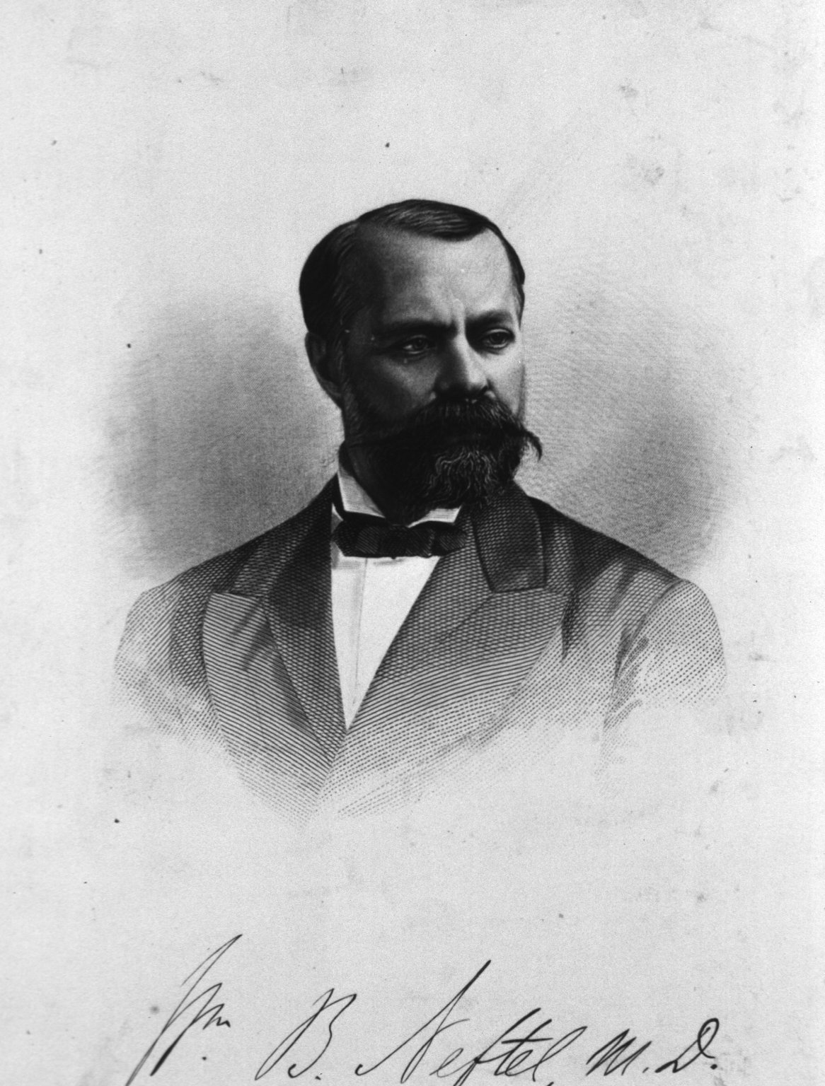 William B. Neftel